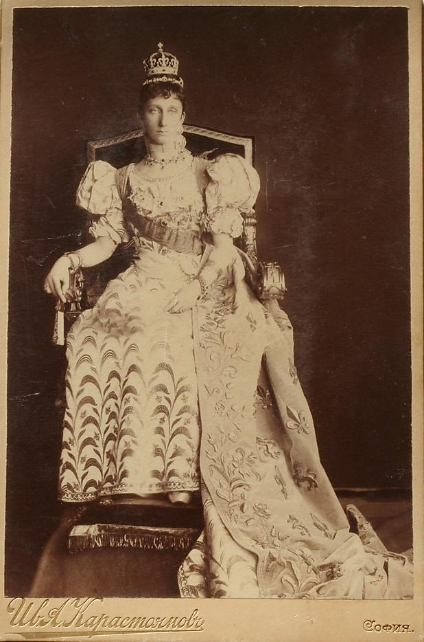 Portrait of Marie Louise of Bourbon-Parma (1870-1899), Princess of Bulgaria